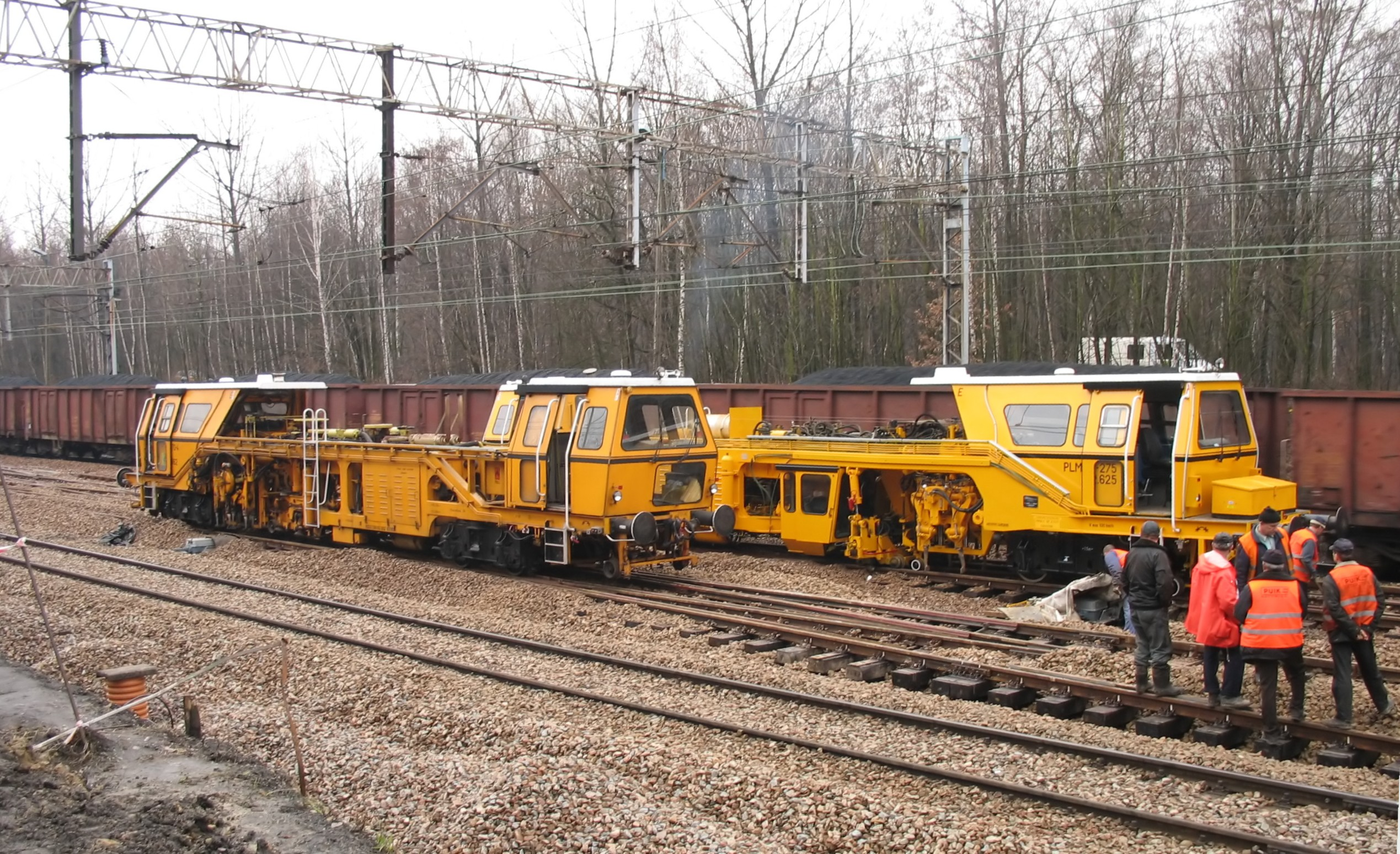 Railway works vehicles in Zabrze in Poland.